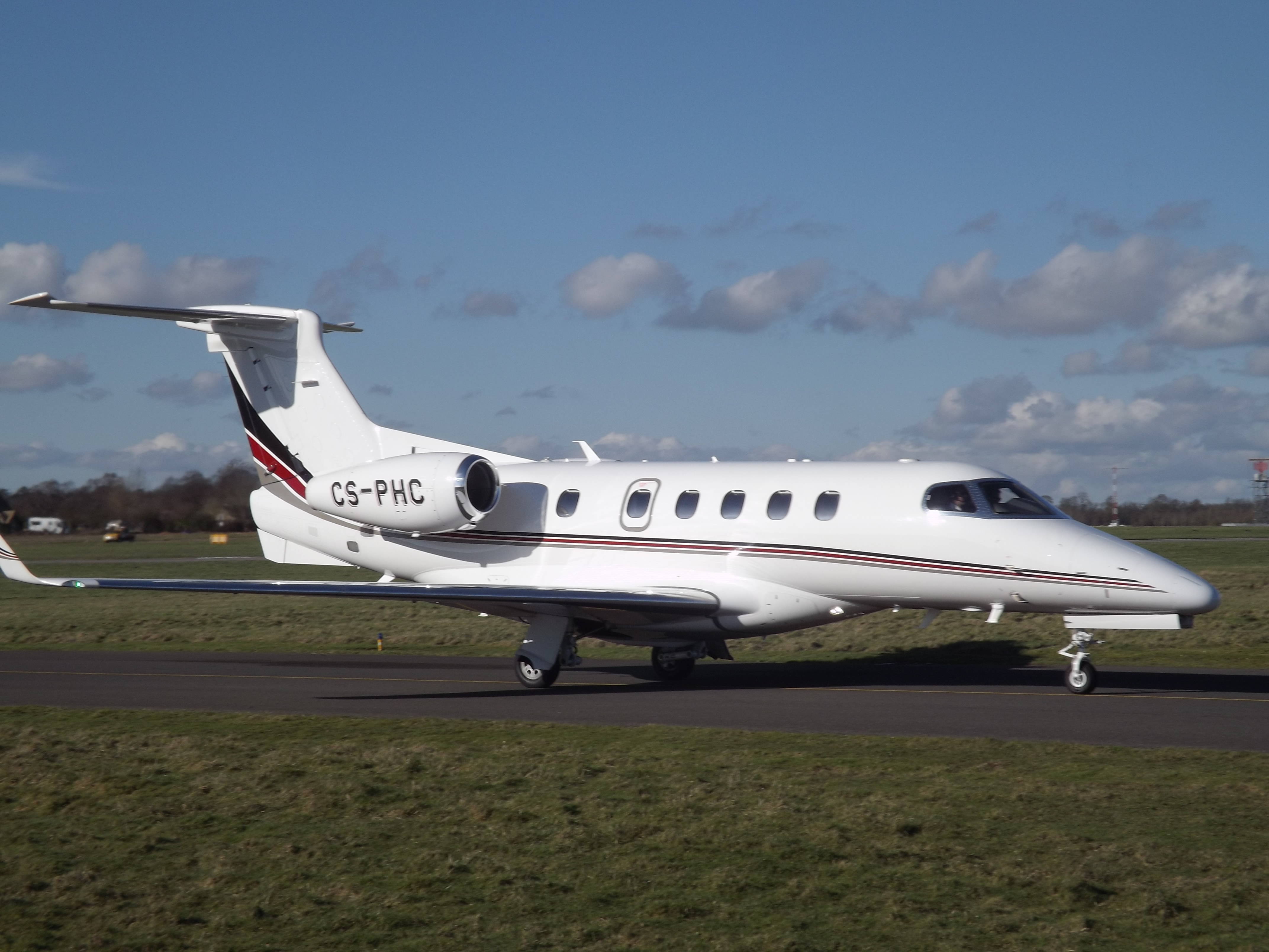 At Oxford Airport.